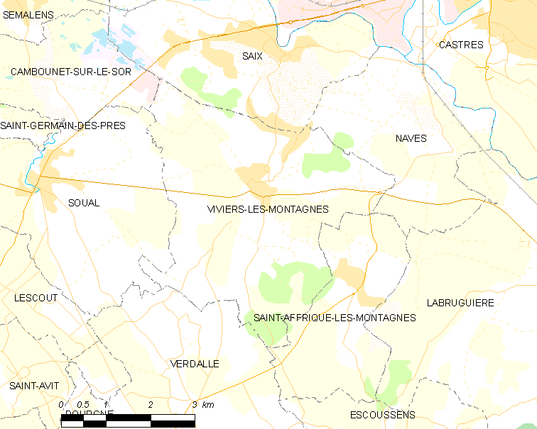 Map of French municipality Viviers-lès-Montagnes